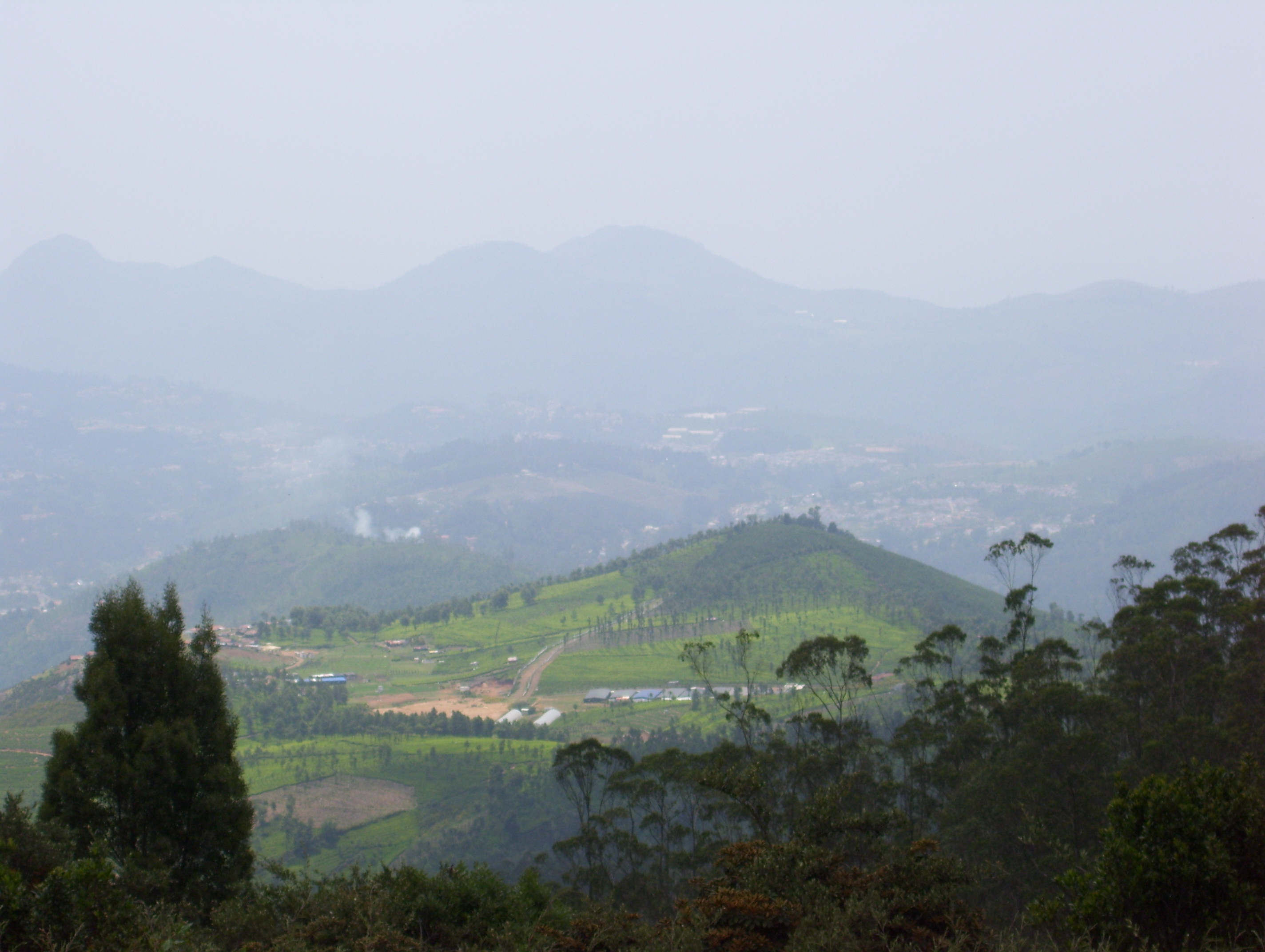 A view of Ooty from the Doddabetta peak.